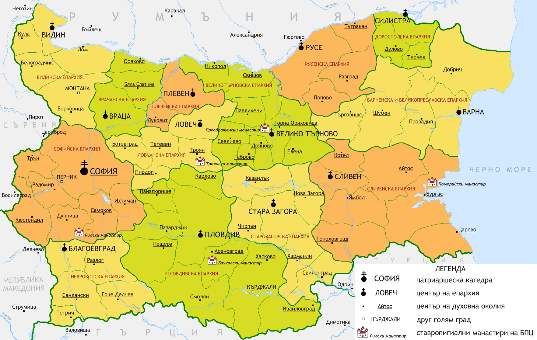 Eparchies of the Bulgarian Orthodox Church